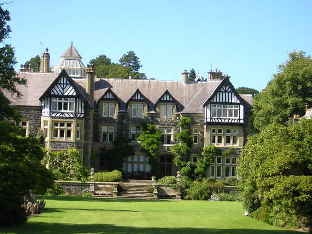 Bodnant House in mid Summer